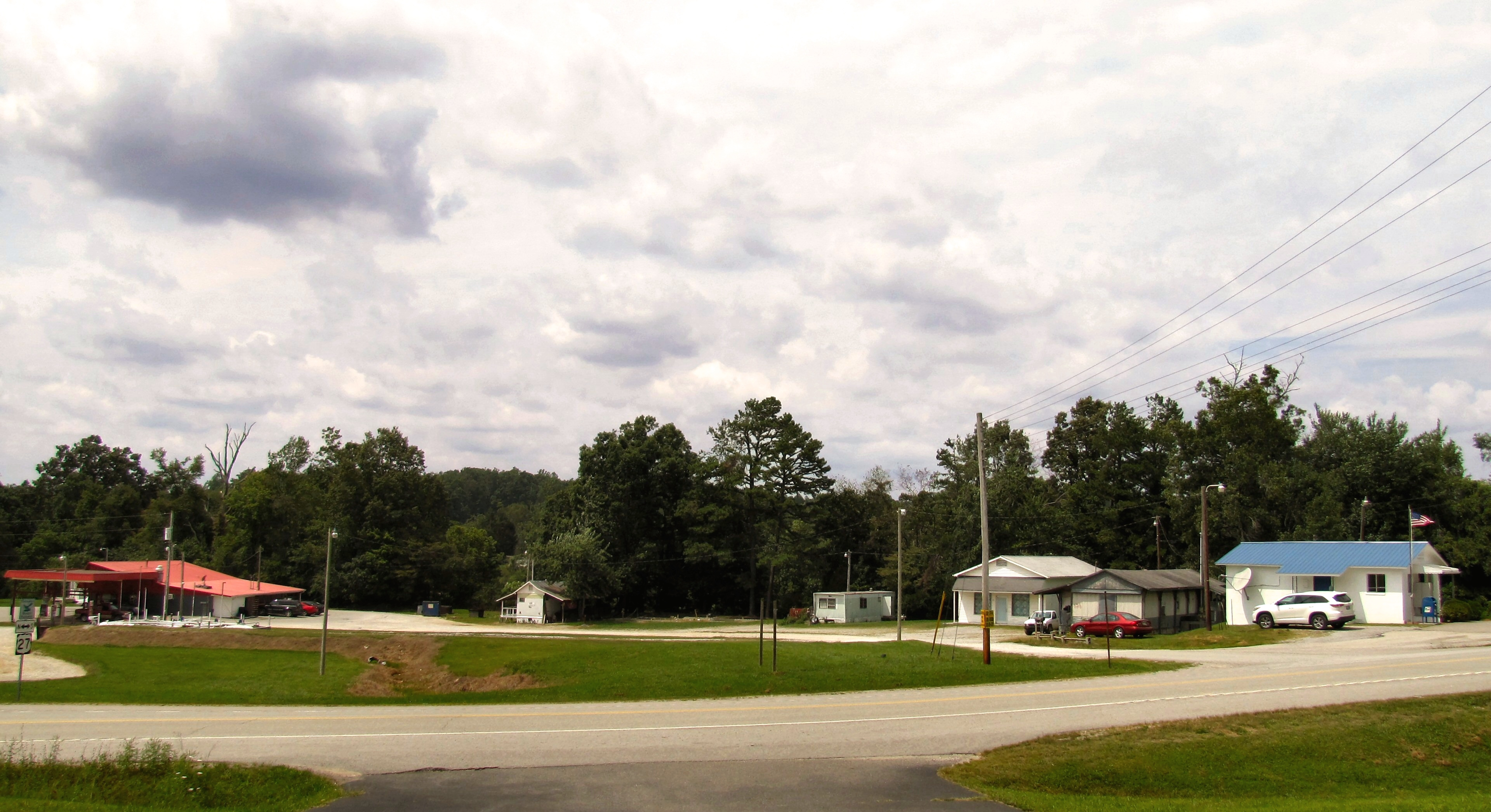 Elgin, Tennessee, United States. Tennessee State Route 52 is in the foreground.